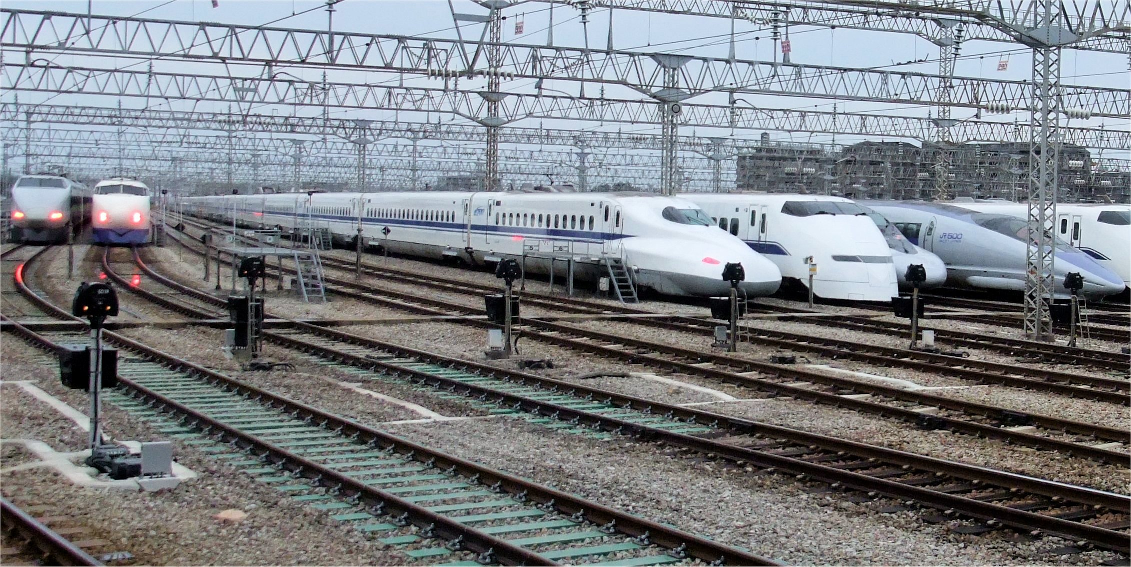 Tokaido Sanyou Shinkansen all series